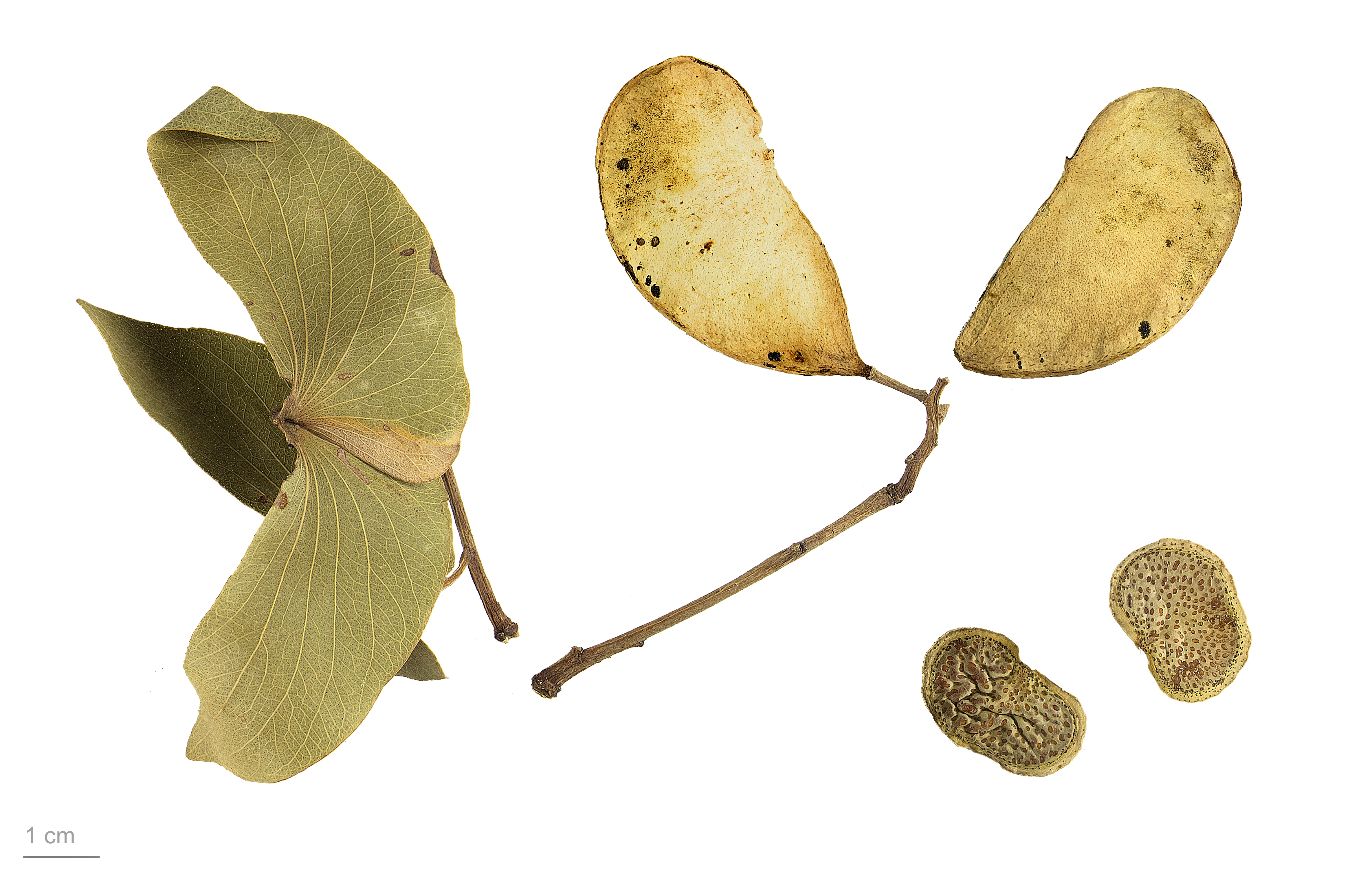 Colophospermum mopane, balsam tree, seeds